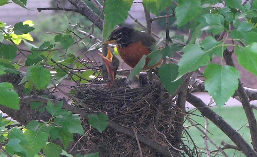 An American Robin feeding its young. Taken in Munster, Indiana.